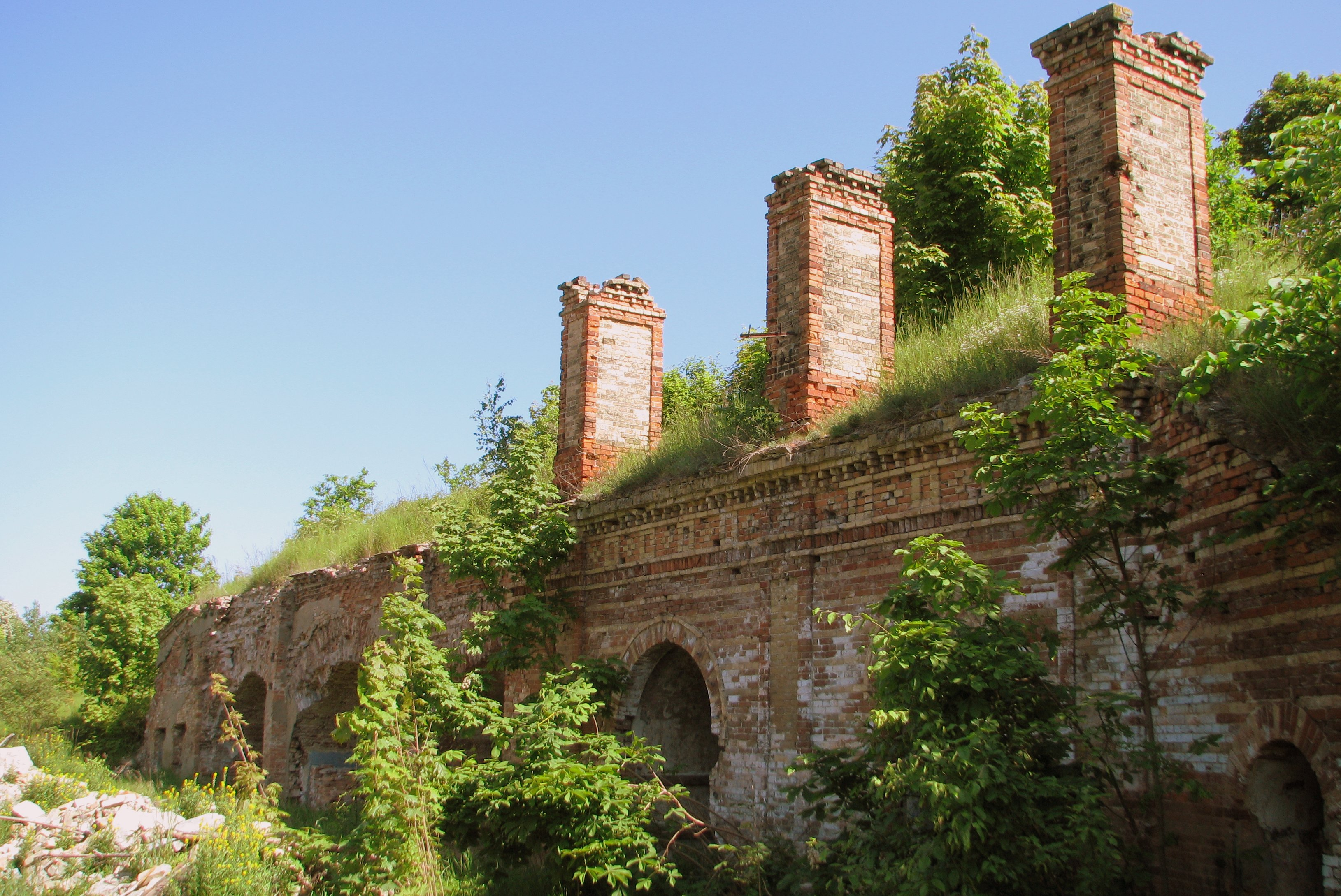 Fort of Daugavgriva, Dunamunde